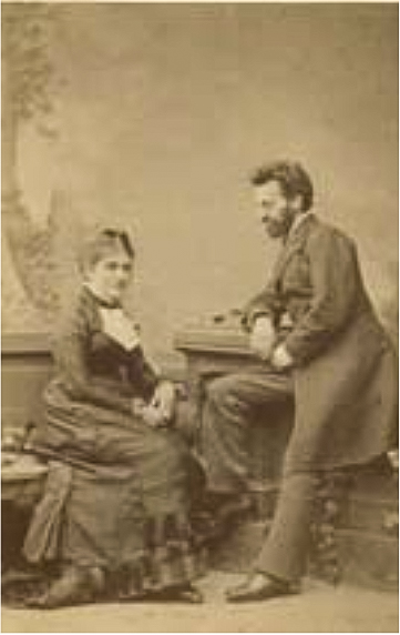 Julie Bondy, born Cassirer, and Otto Bondy